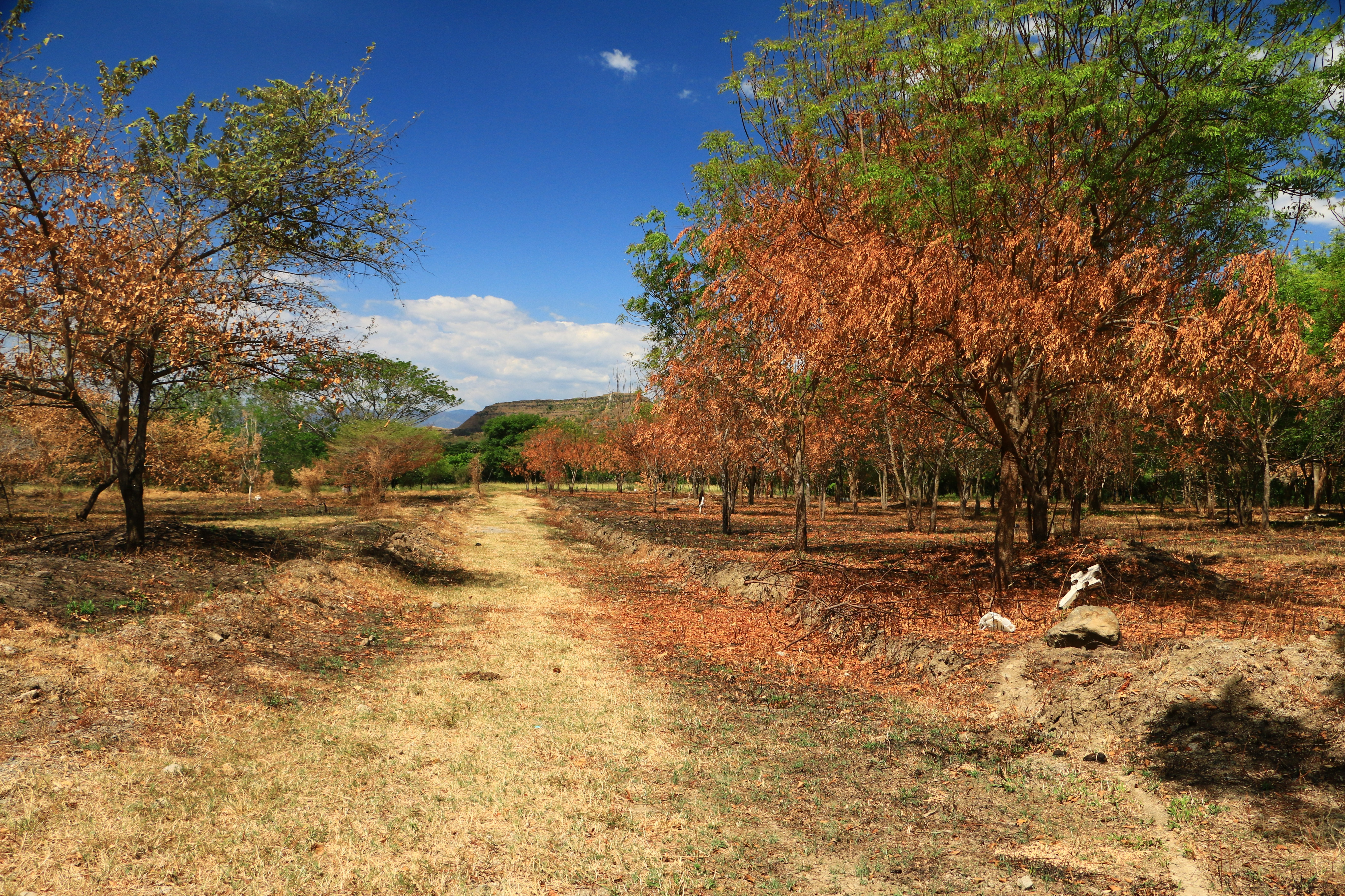 Gunsmith Tolima Landscape